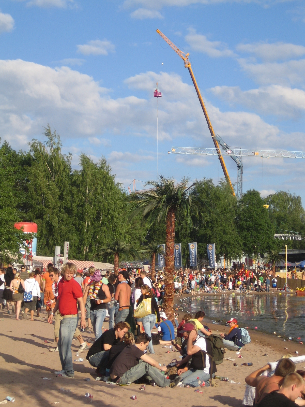 RMJ 2006 scenery beach